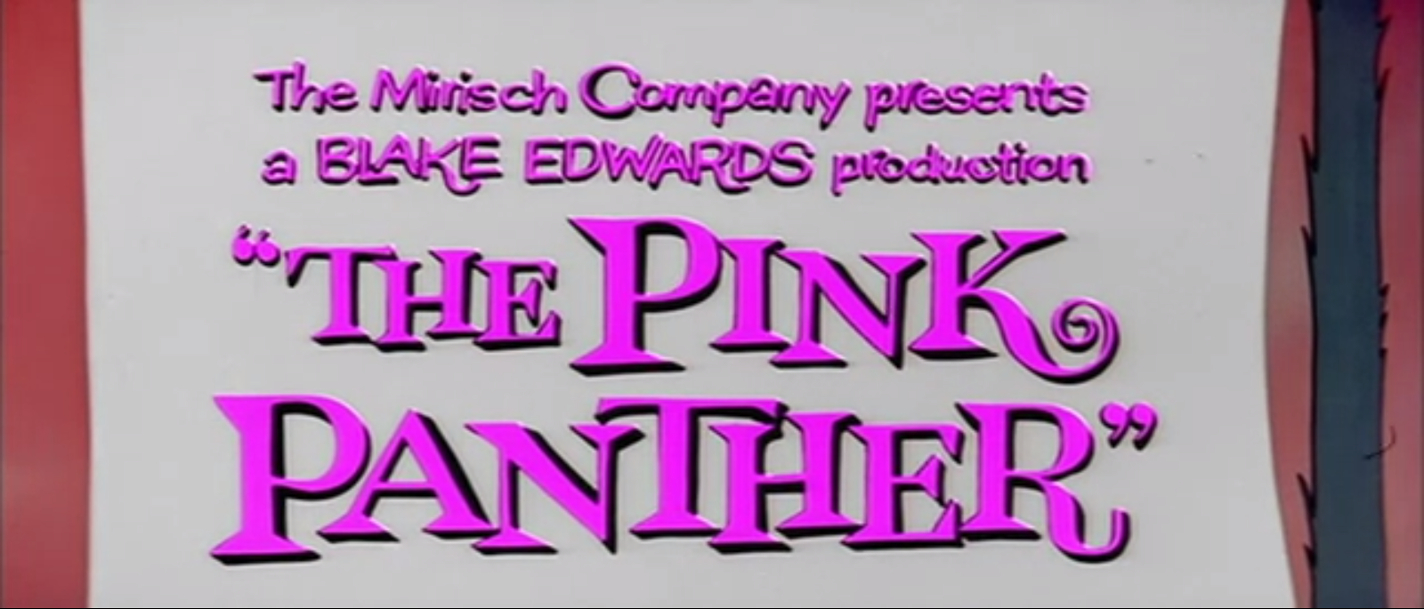 The Pink Panther trailer screenshot